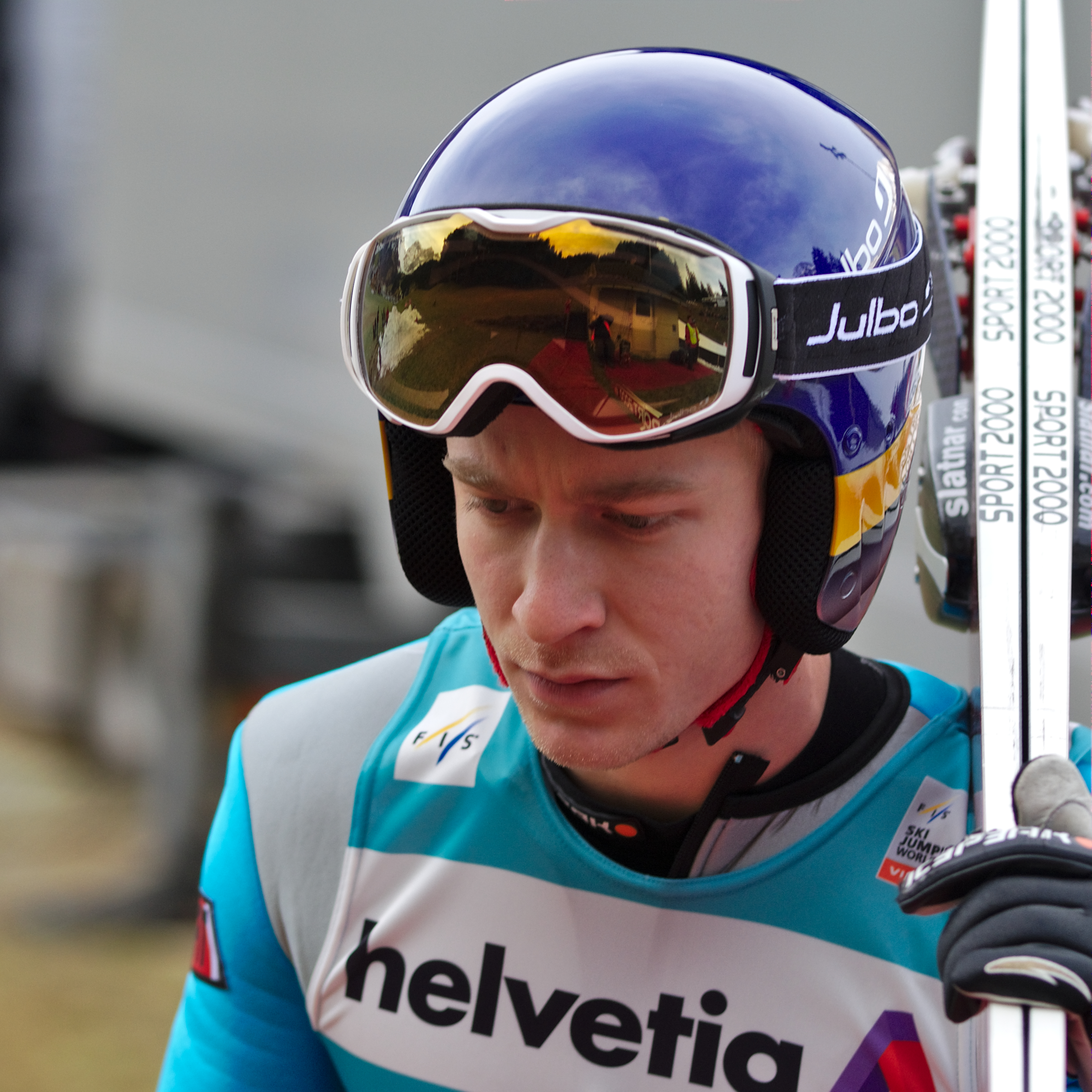 FIS Ski Jumping World Cup 2014 - Engelberg - 20141221 - Ville Larinto